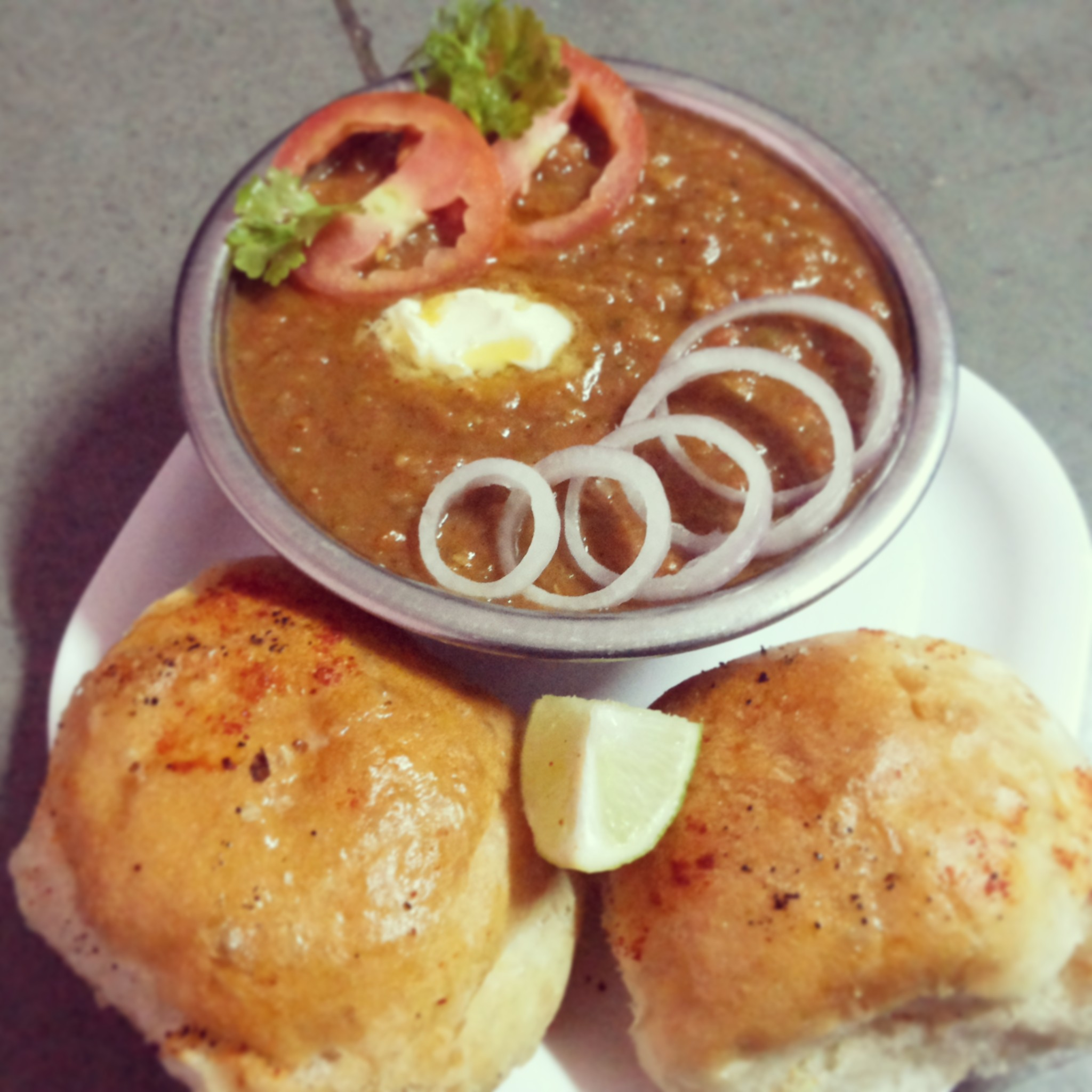 Pav bhaji is very famous fast food item in Mumbai.